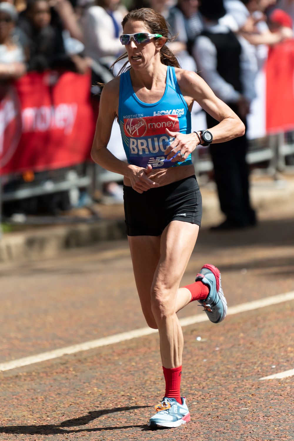 2018 London Marathon, Tenth in 2:32:28 for the American